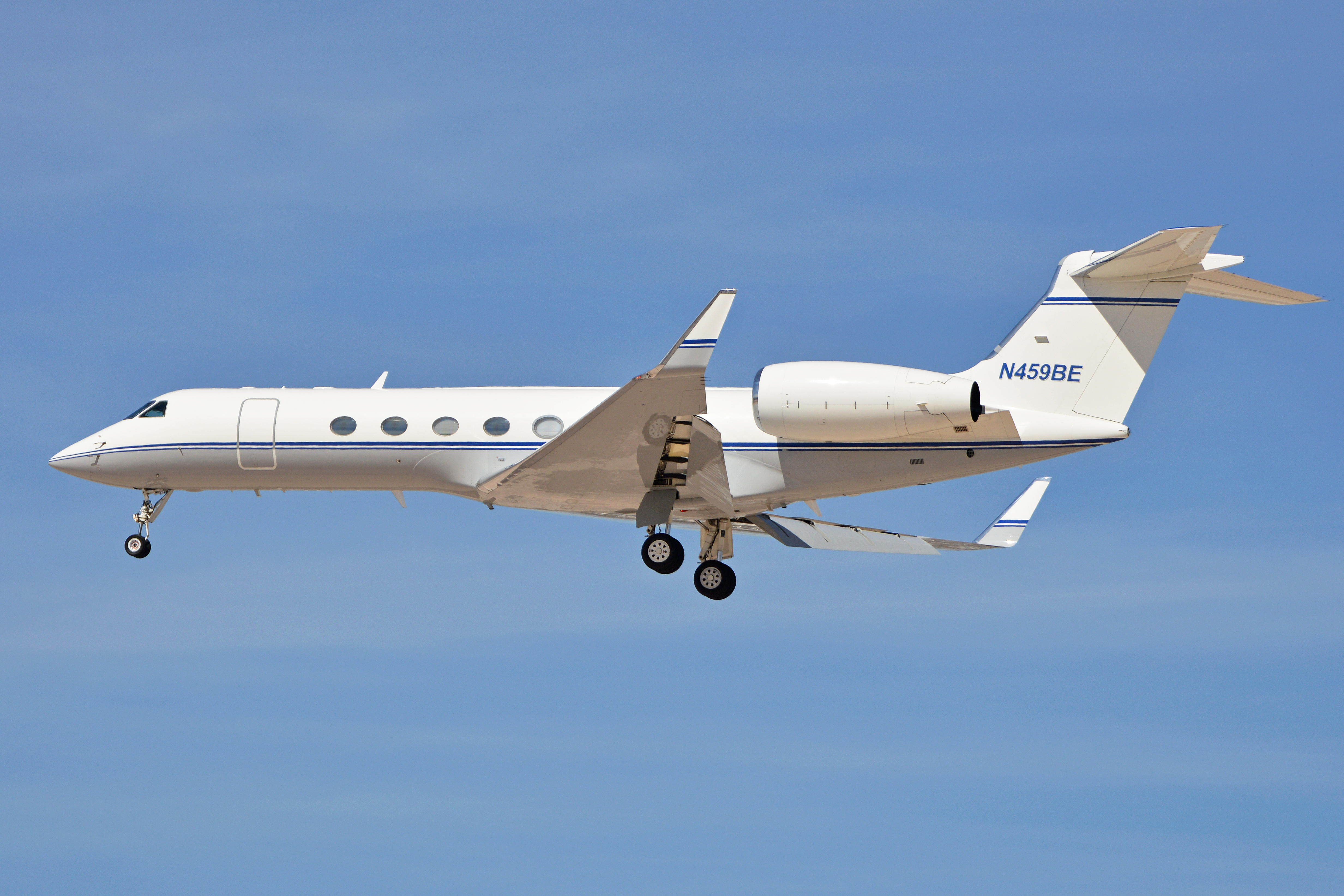 c/n 541. Built 1998. Seen arriving at McCarran International Airport, Las Vegas, NV, USA. 2nd March 2016.